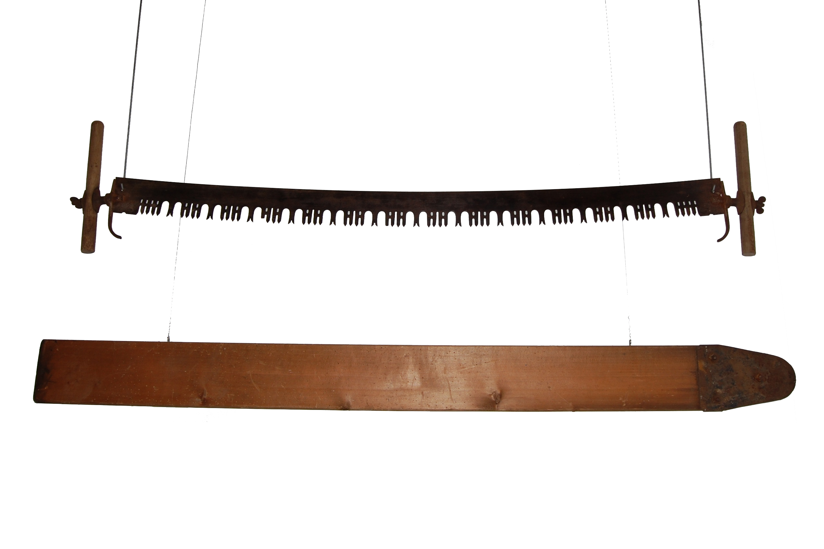 Two-man felling saw and springboard. Made in History Museum of Los Gatos, California